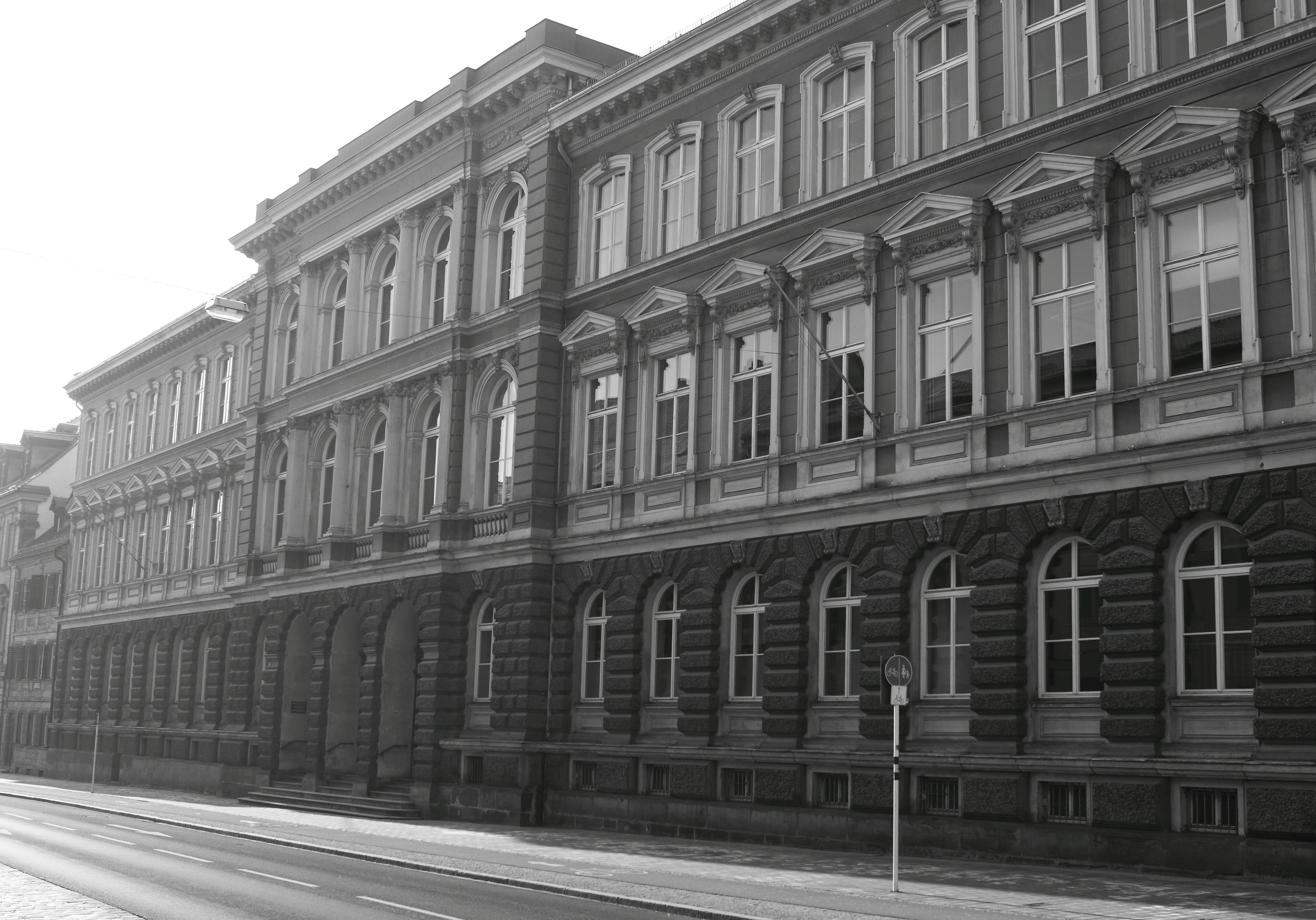 Front of Clavius-Gymnasium in Bamberg